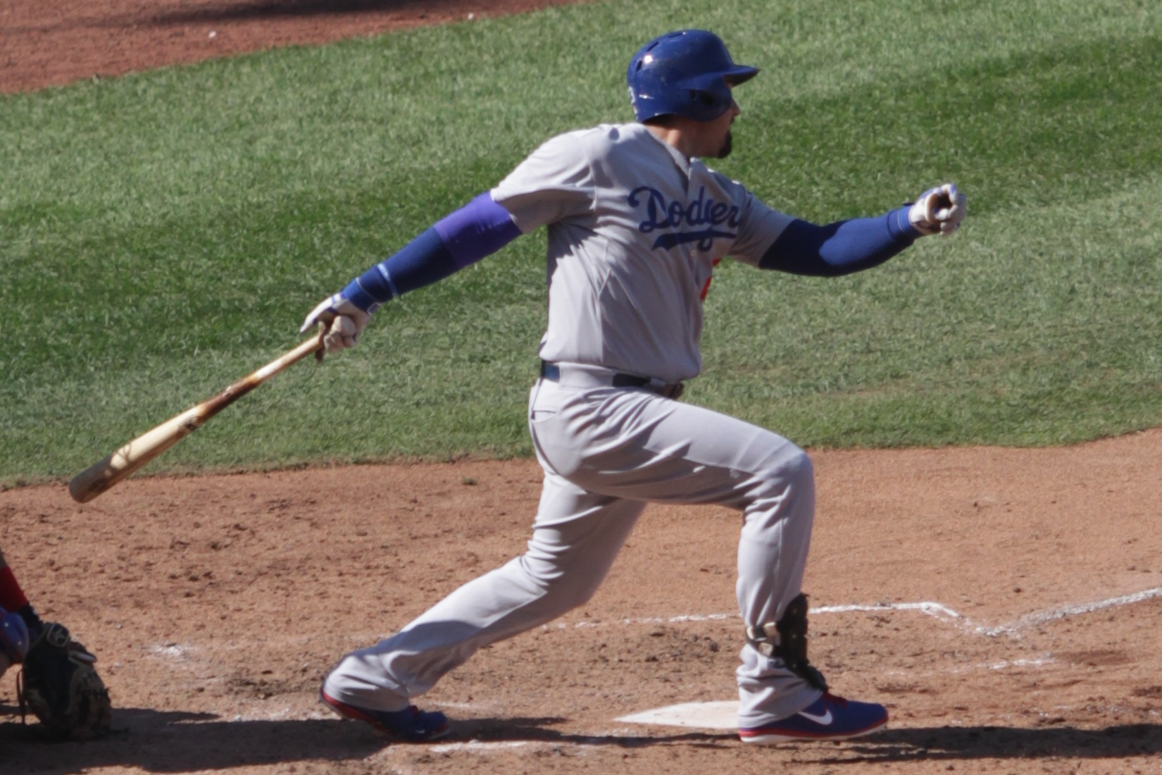 Adrian Gonzalez for the 2014 Los Angeles Dodgers against the 2014 Chicago Cubs at Wrigley Field.